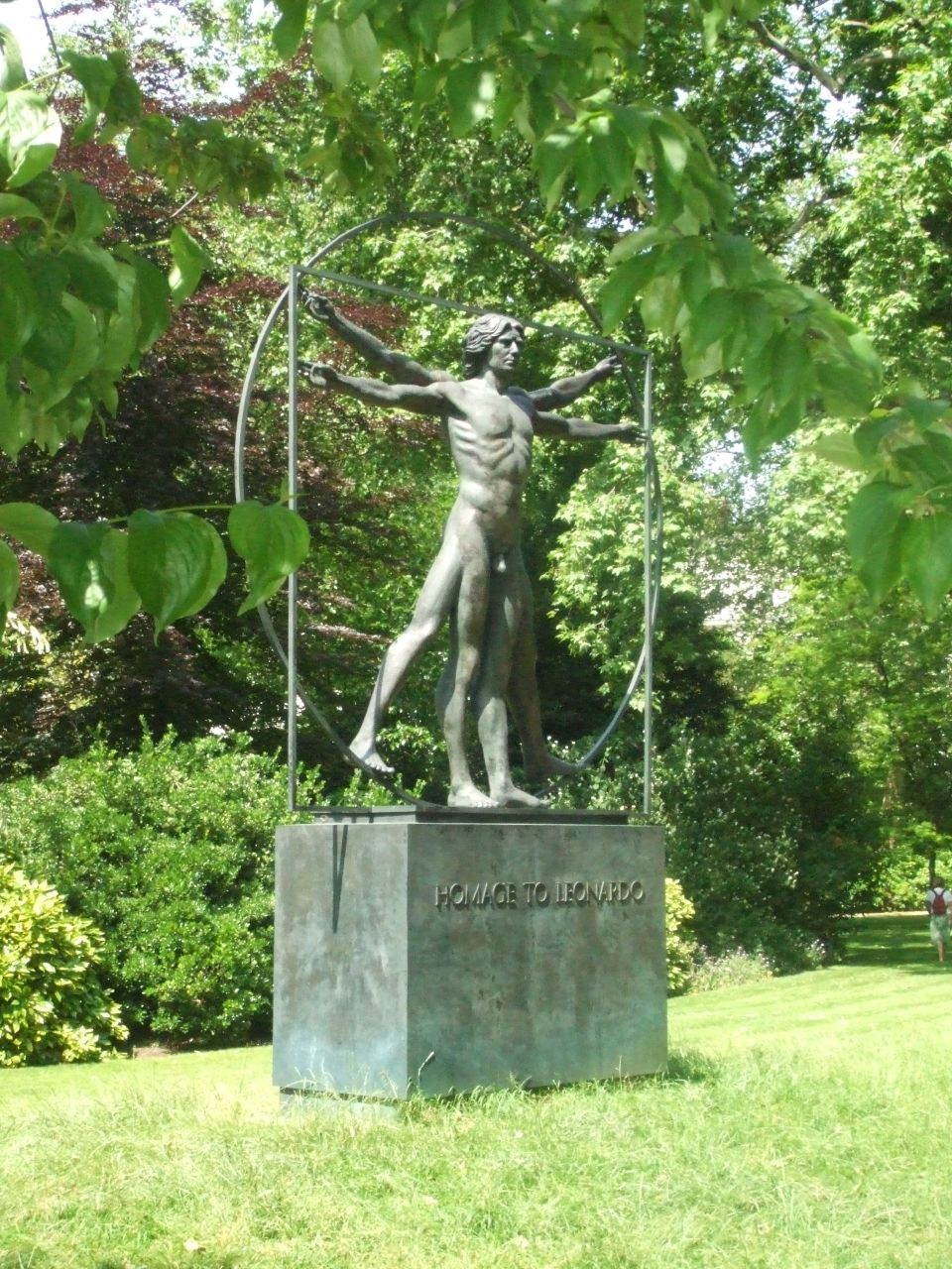 Sculpture Homage to Leonardo (The Vitruvian Man) 1982 by Enzo Plazzotta in Belgrave Square in London/U.K.